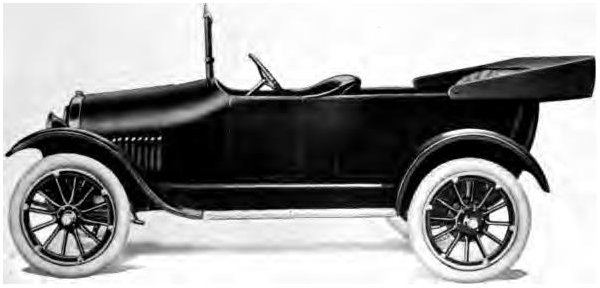 Image is of a 1916 Hollier Automobile. It comes from page 55 of the Automobile Year Book (1916) published by the Automobile department of McClure's magazine, The McClure Publications , inc. The scanned book is part of the Internet Archive collection. The notes at this site describe the source as: Book digitized by Google from the library of the University of Michigan and uploaded to the Internet Archive by user tpb.